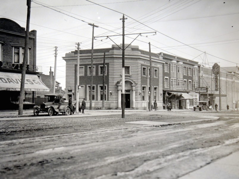 Toronto's St. Clair Theatre, at Dufferin. This image is available from the City of Toronto Archives. This tag does not indicate the copyright status of the attached work. A normal copyright tag is still required. See Commons:Licensing for more information.